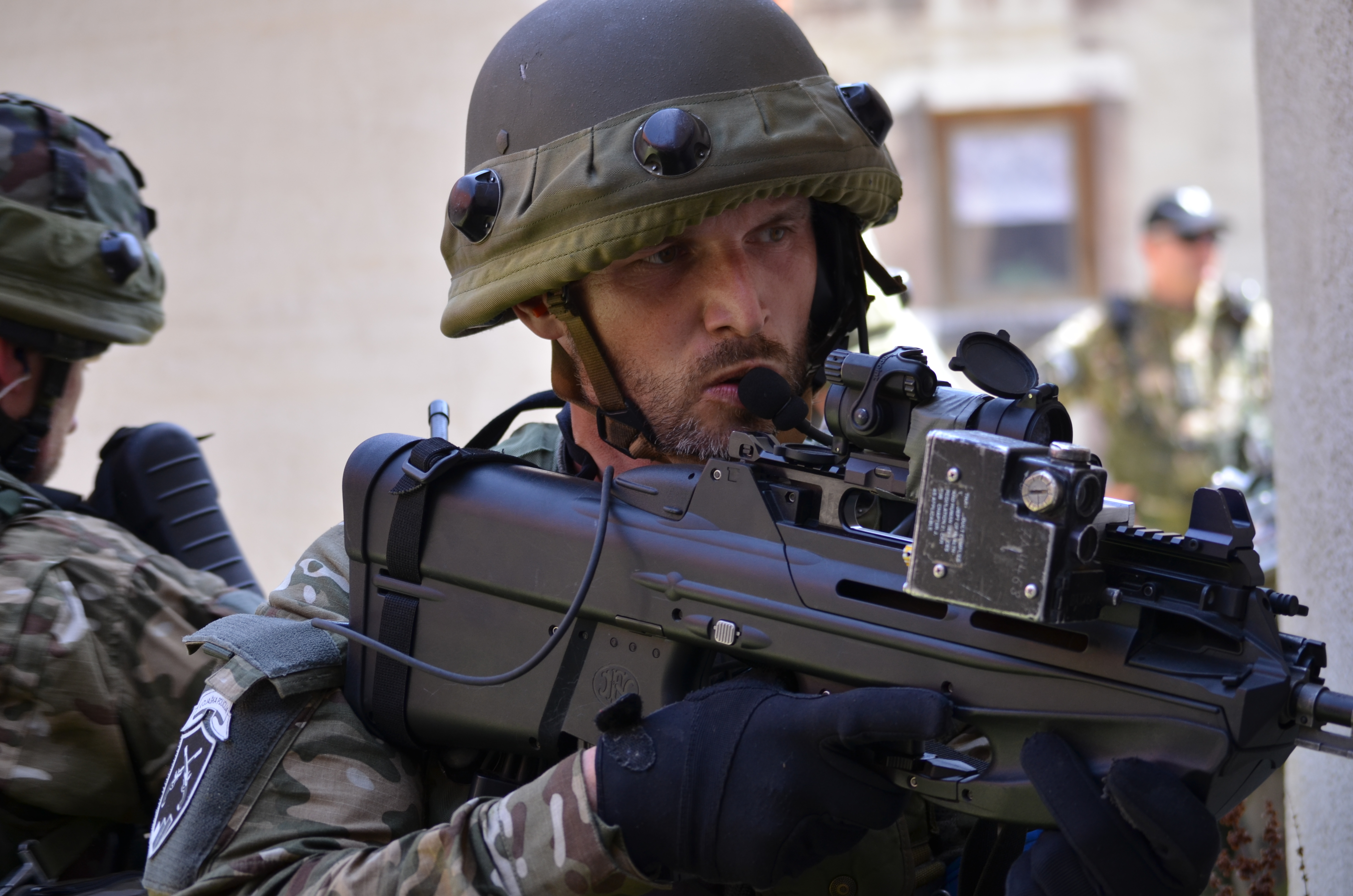 Slovenian soldiers provide security while conducting a room clearance exercise during exercise Combined Resolve II at the Joint Multinational Readiness Center in Hohenfels, Germany May 22, 2014. Combined Resolve II is a multinational decisive action training environment exercise occurring at the Joint Multinational Training Command’s Hohenfels and Grafenwoehr Training Areas that involves more than 4,000 participants from 15 partner nations. The intent of the exercise is to train and prepare a U.S. led multinational brigade to interoperate with multiple partner nations and execute unified land operations against a complex threat while improving the combat readiness of all participants. (U.S. Army photo by Sgt. Nicholaus Williams/Released)